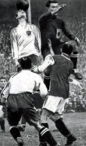 Action from the 1923 FA Cup Final. Scanned in from The History of the Wembley FA Cup Final by Andrew Thraves, but the identity of the photographer appears to be unknown and therefore, in conjunction with its age, it is believed that this renders the image PD as per the template